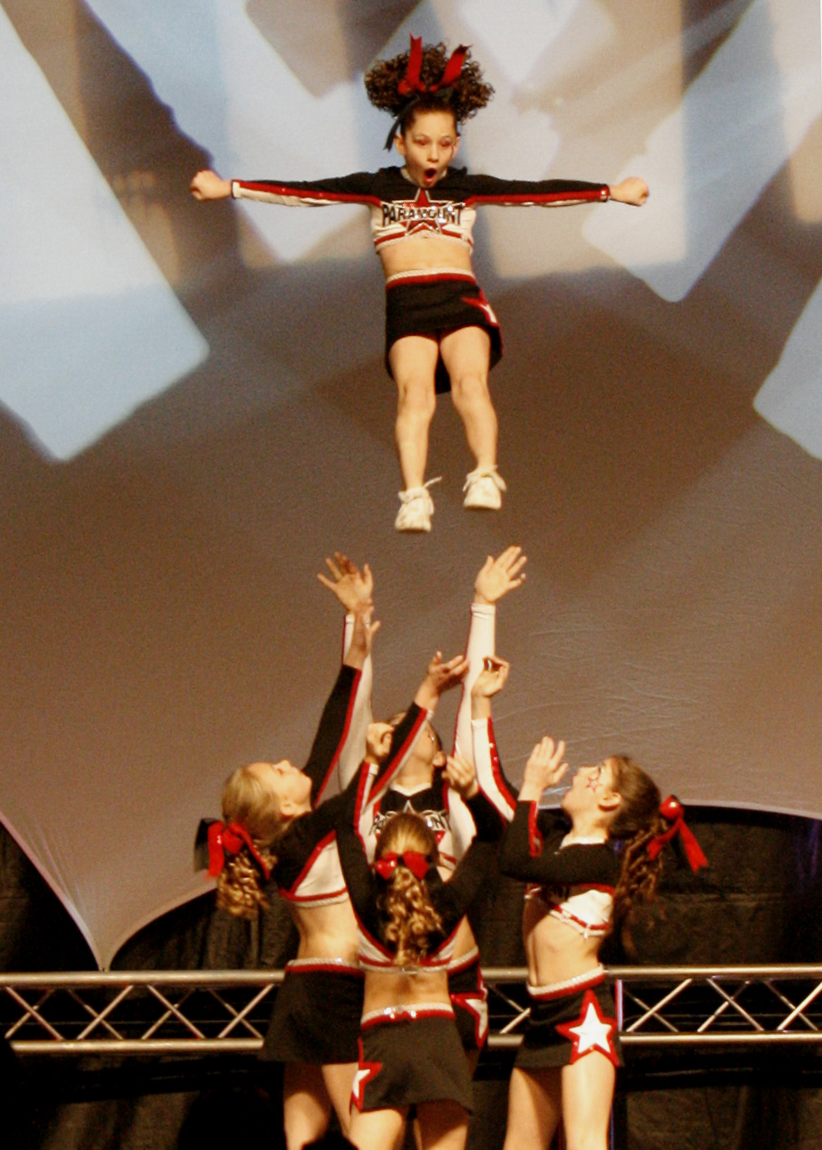 paramount cheerleaders doing a basket toss